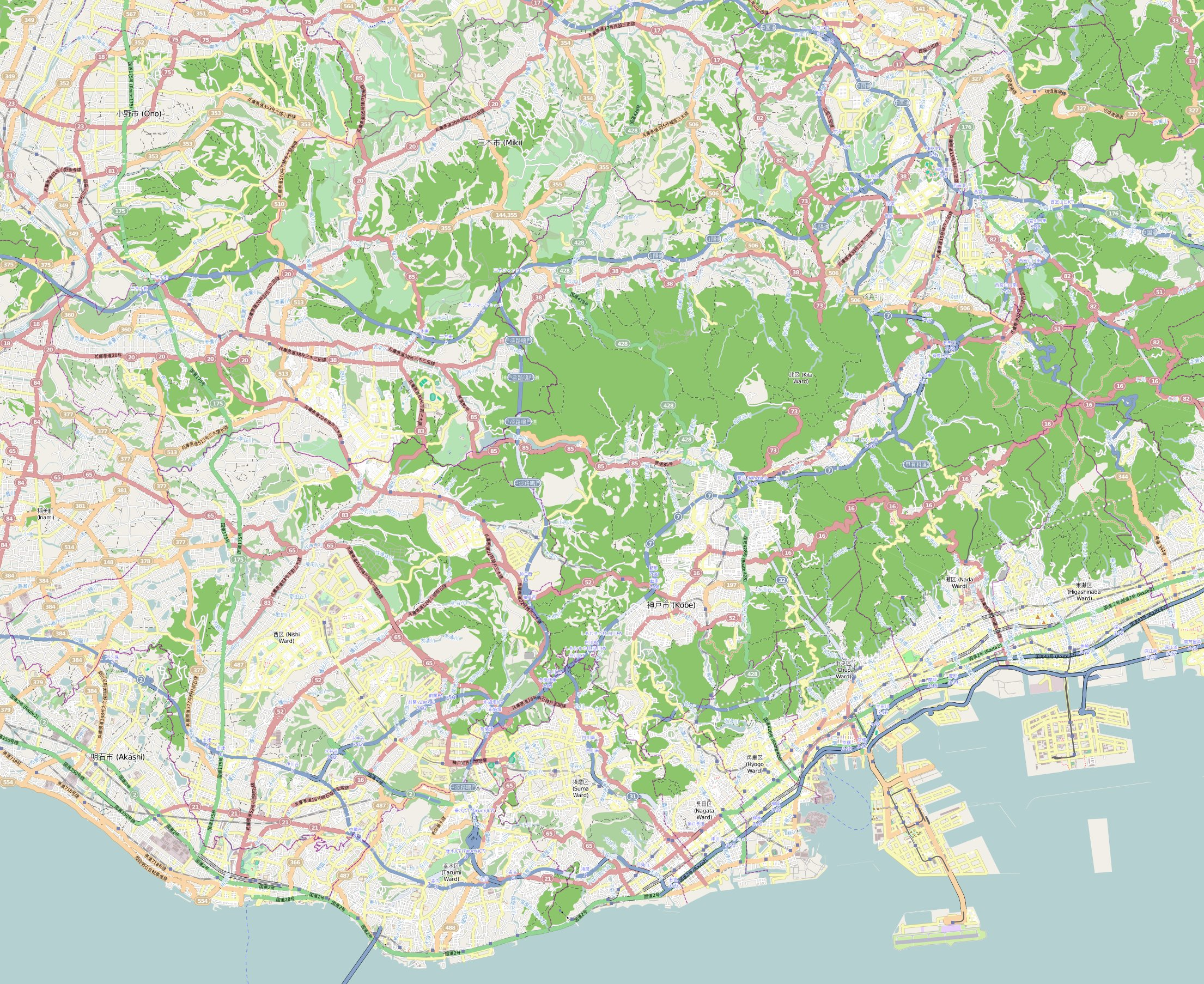 This map of Kobe, Japan was created from OpenStreetMap project data, collected by the community. This map may be incomplete, and may contain errors. Don't rely solely on it for navigation.